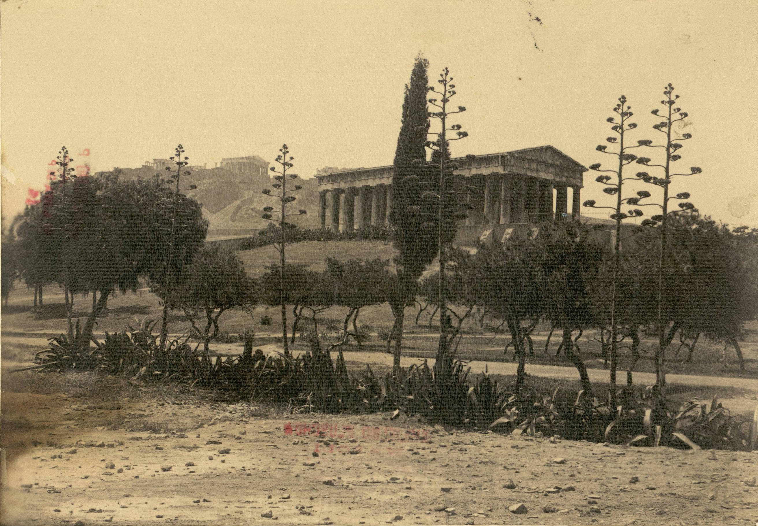 Wilhelm von Plüschow (1852-1930), #. 1745. Vue d'Athènes - Héphaistéion et Acropole. ("View of Athens: Hephaisteion and Acropolis"), 1896 .